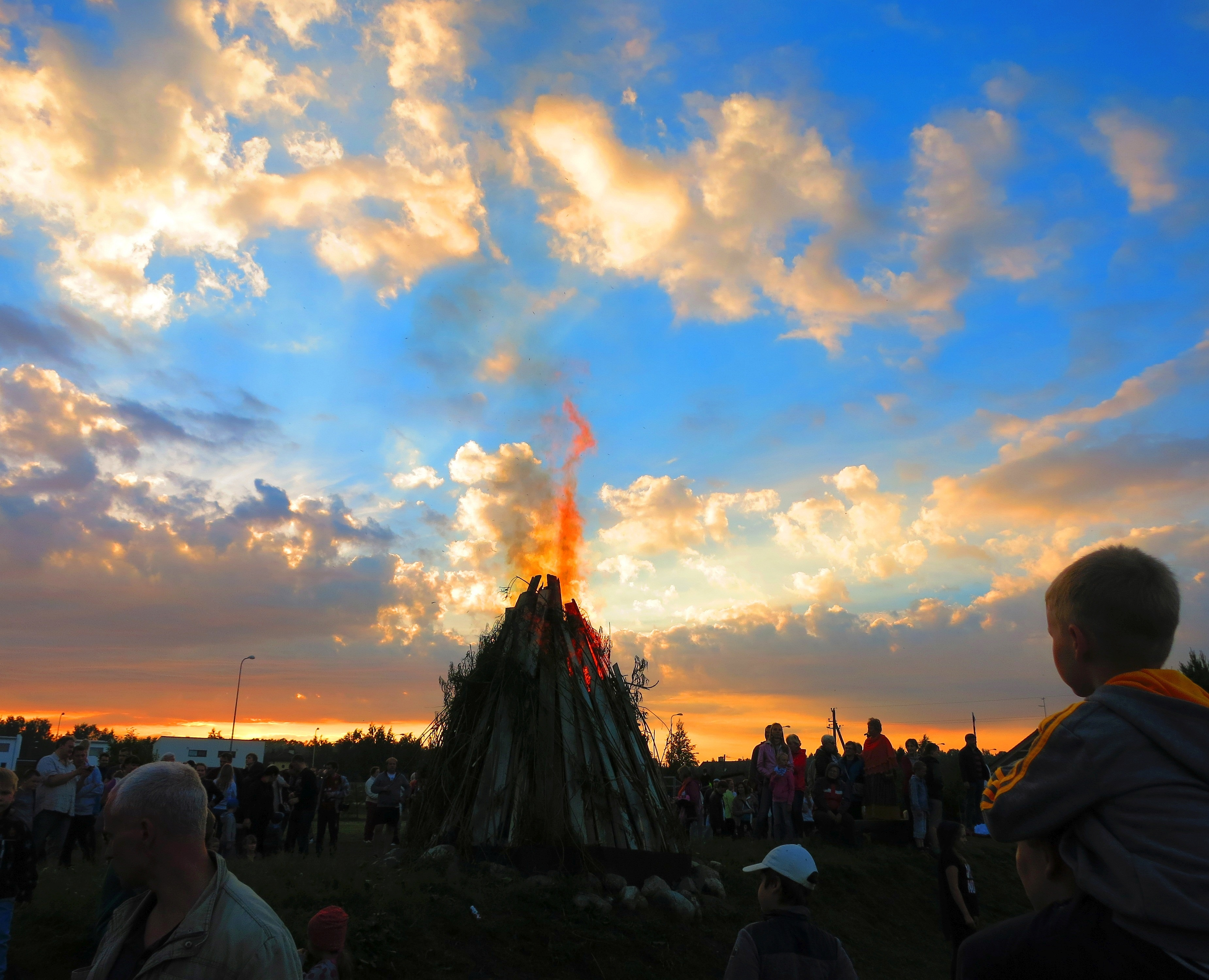 Midsummer's Eve in Randvere village (Estonia). Midsummer is traditional and the greatest holiday of a year (even more important than Christmas) for many Estonians.